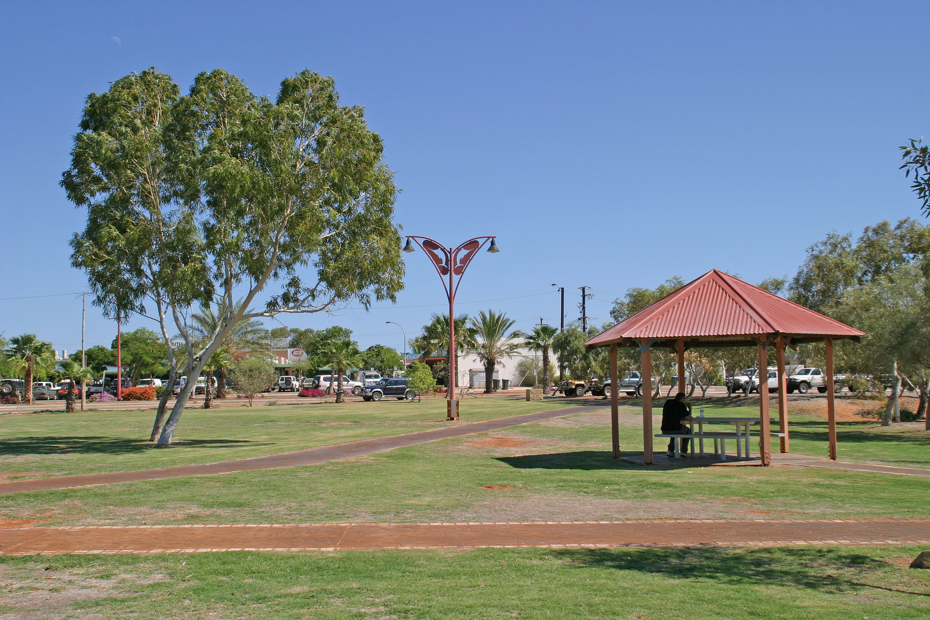 Exmouth (Western Australia). The city with about 2500 inhabitans is located at the top of the peninsula Vlaming Head.